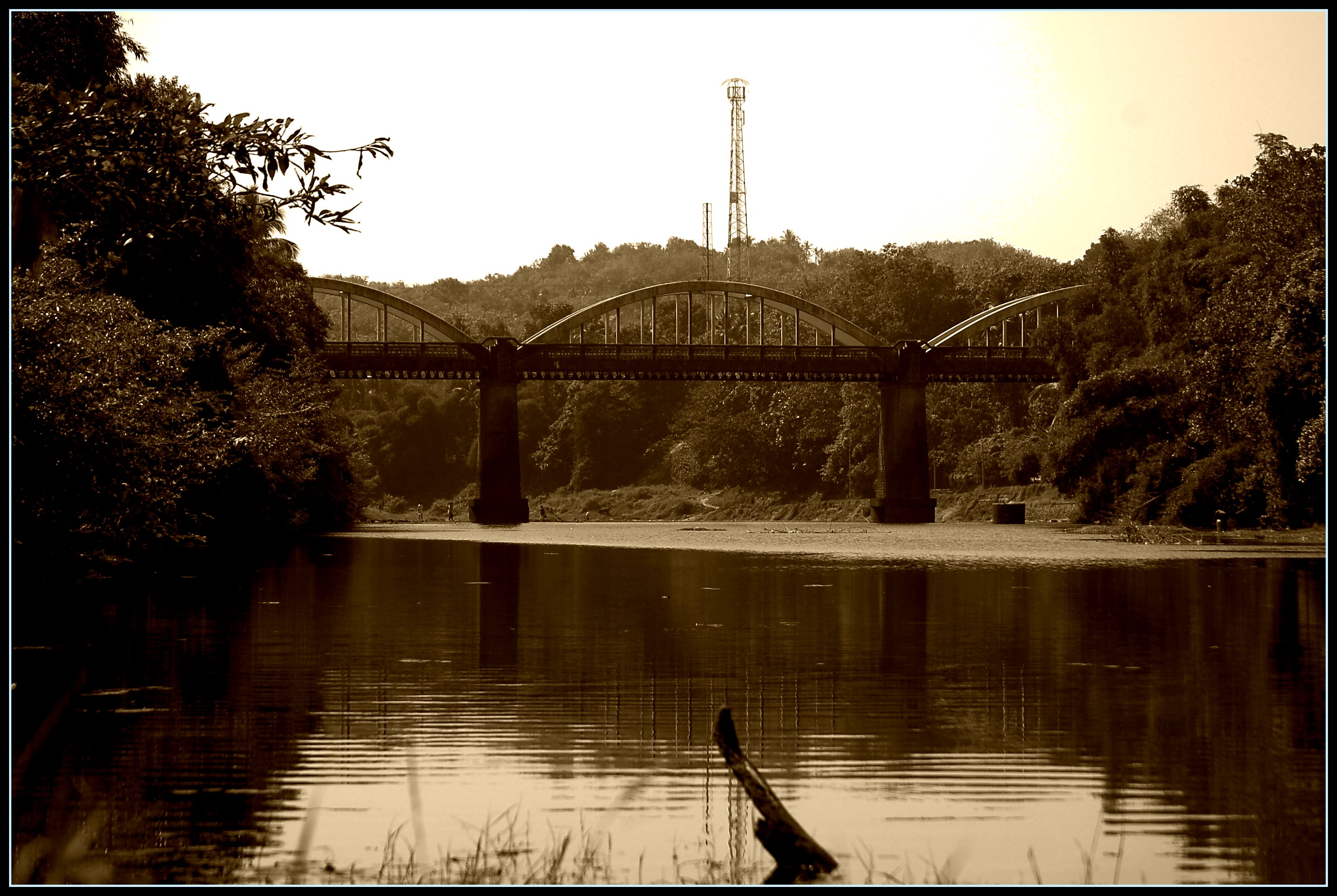 Mallapally, Kerala